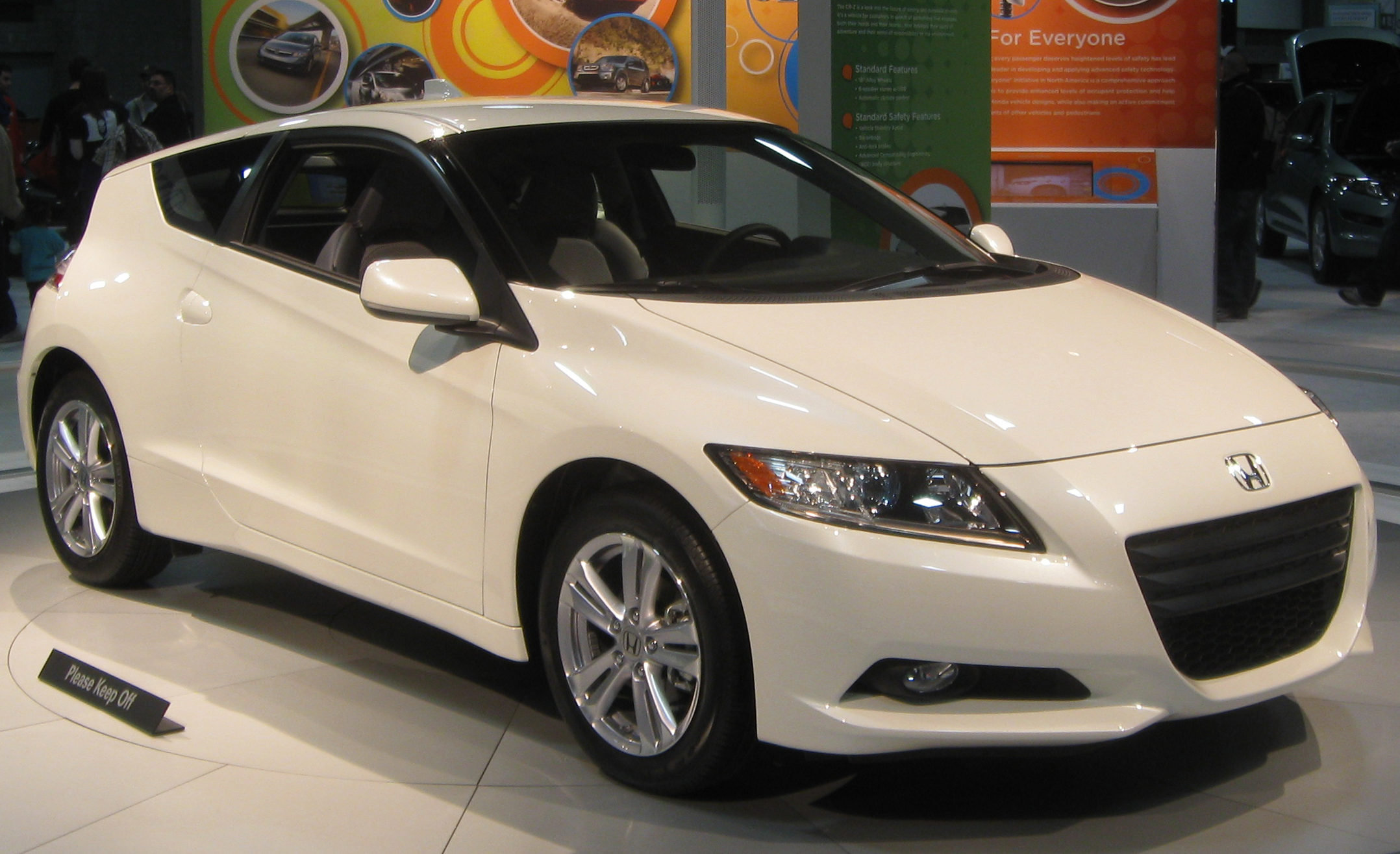 2011 Honda CR-Z photographed at the 2010 Washington Auto Show.